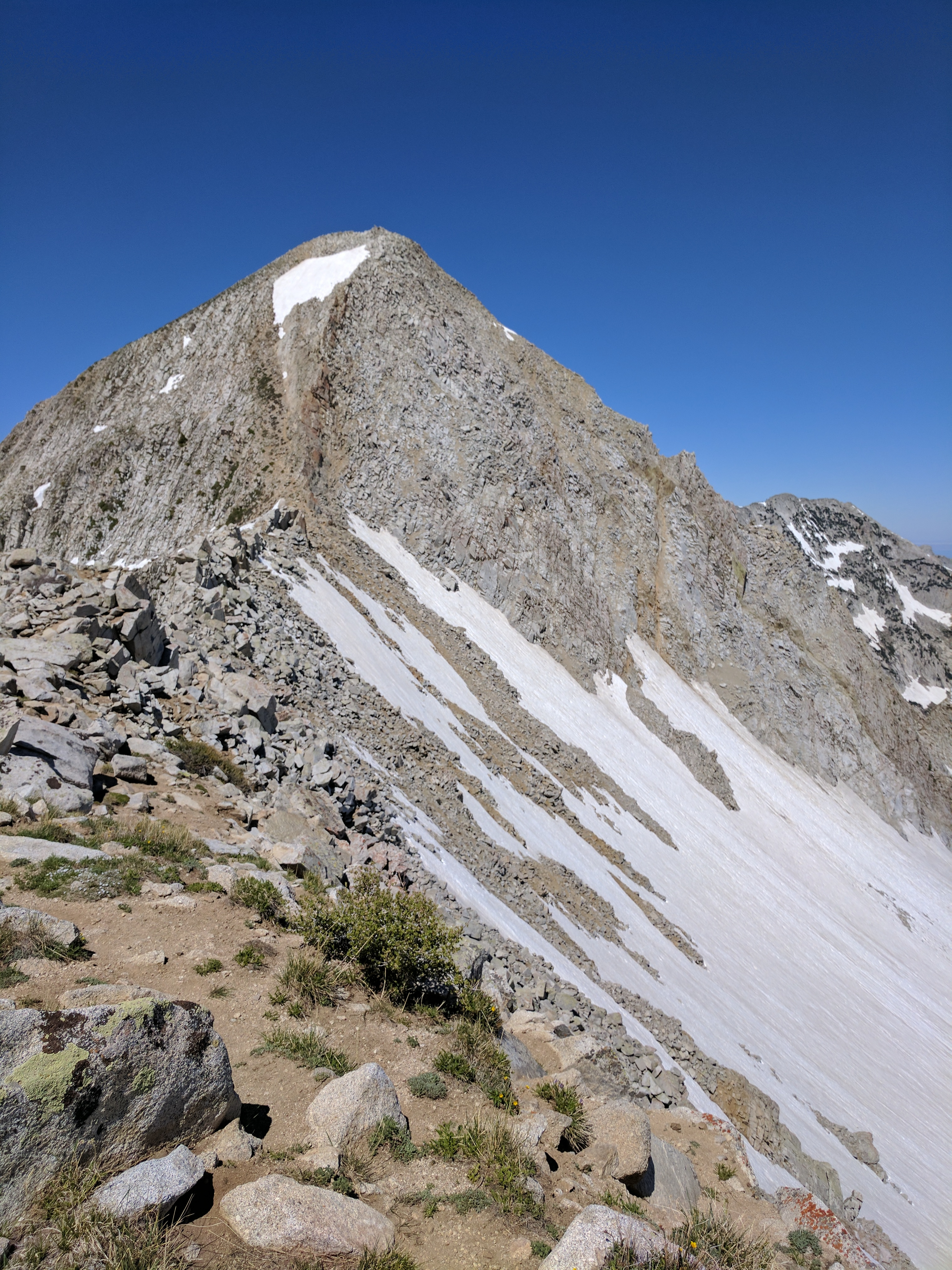 Pfeifferhorn peak from the ridge to the east which is the most common path to summit.